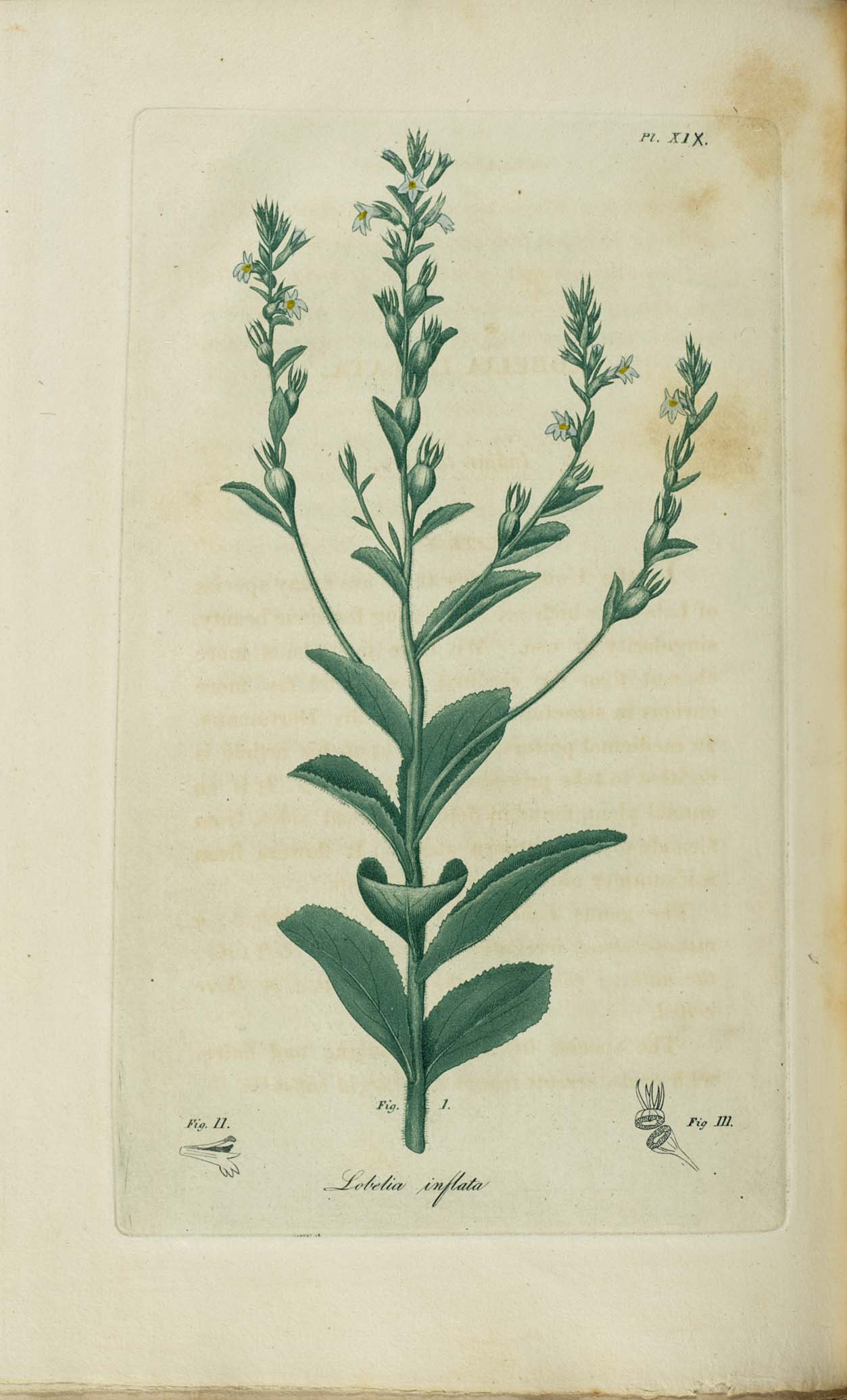 Plate XIX To view the entire book, please visit American Medical Botany.